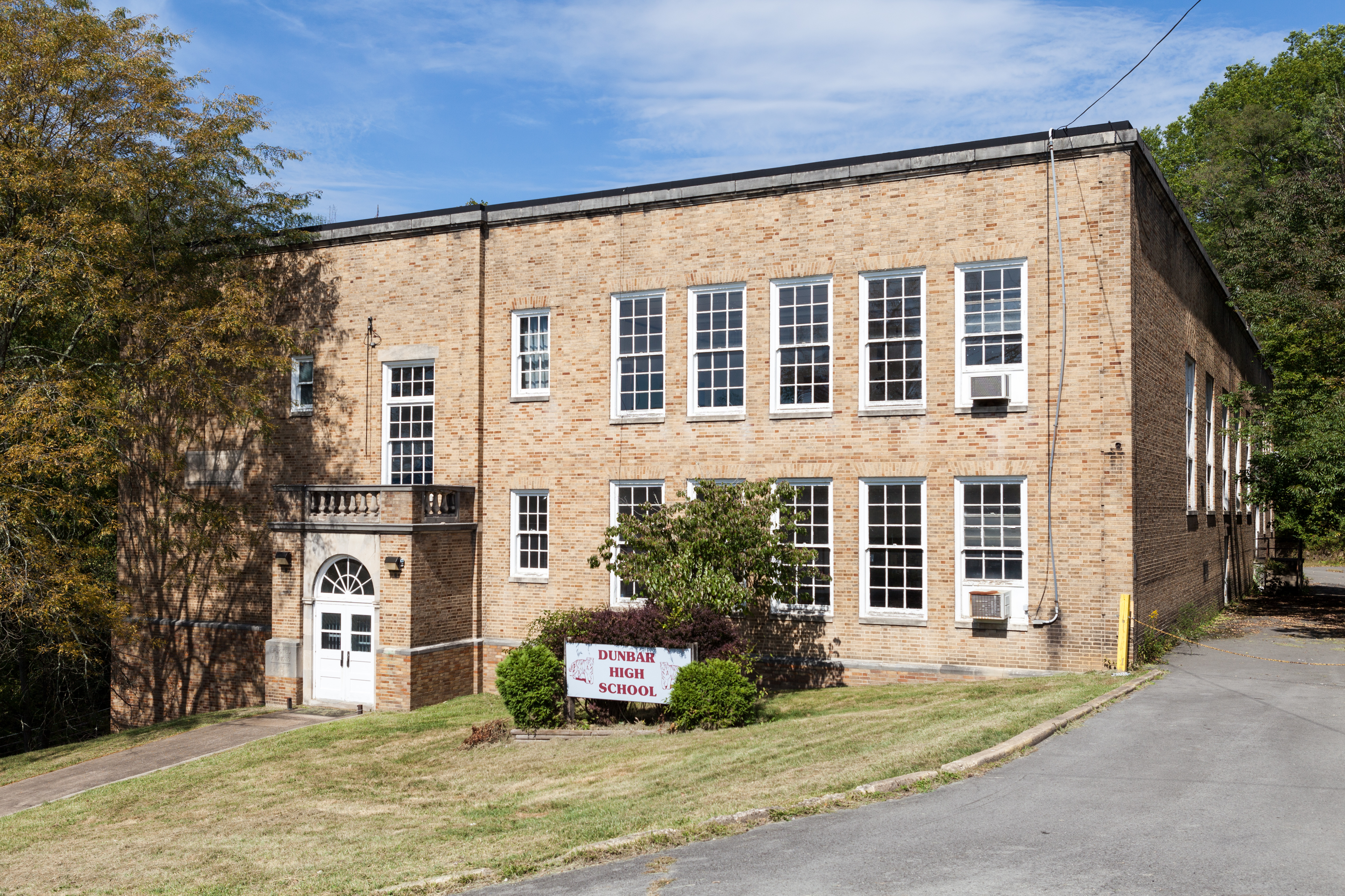 Dunbar School in Fairmont, West Virginia. Looking at the south side, fronting High Street.